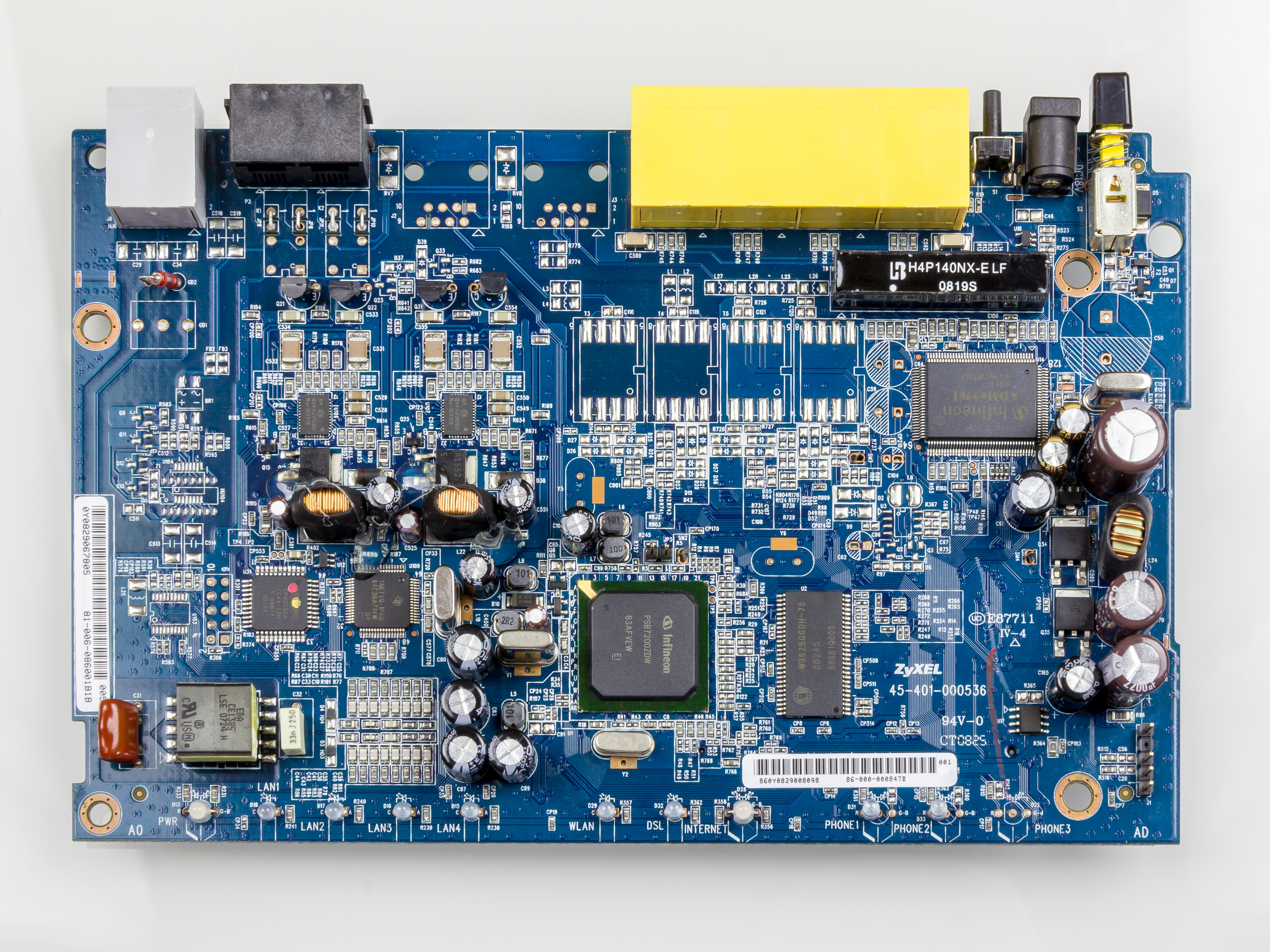 Mainboard of DSL Router Zyxel P-2602HW-D7A